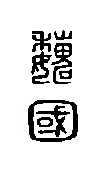 seal of the state of Wei